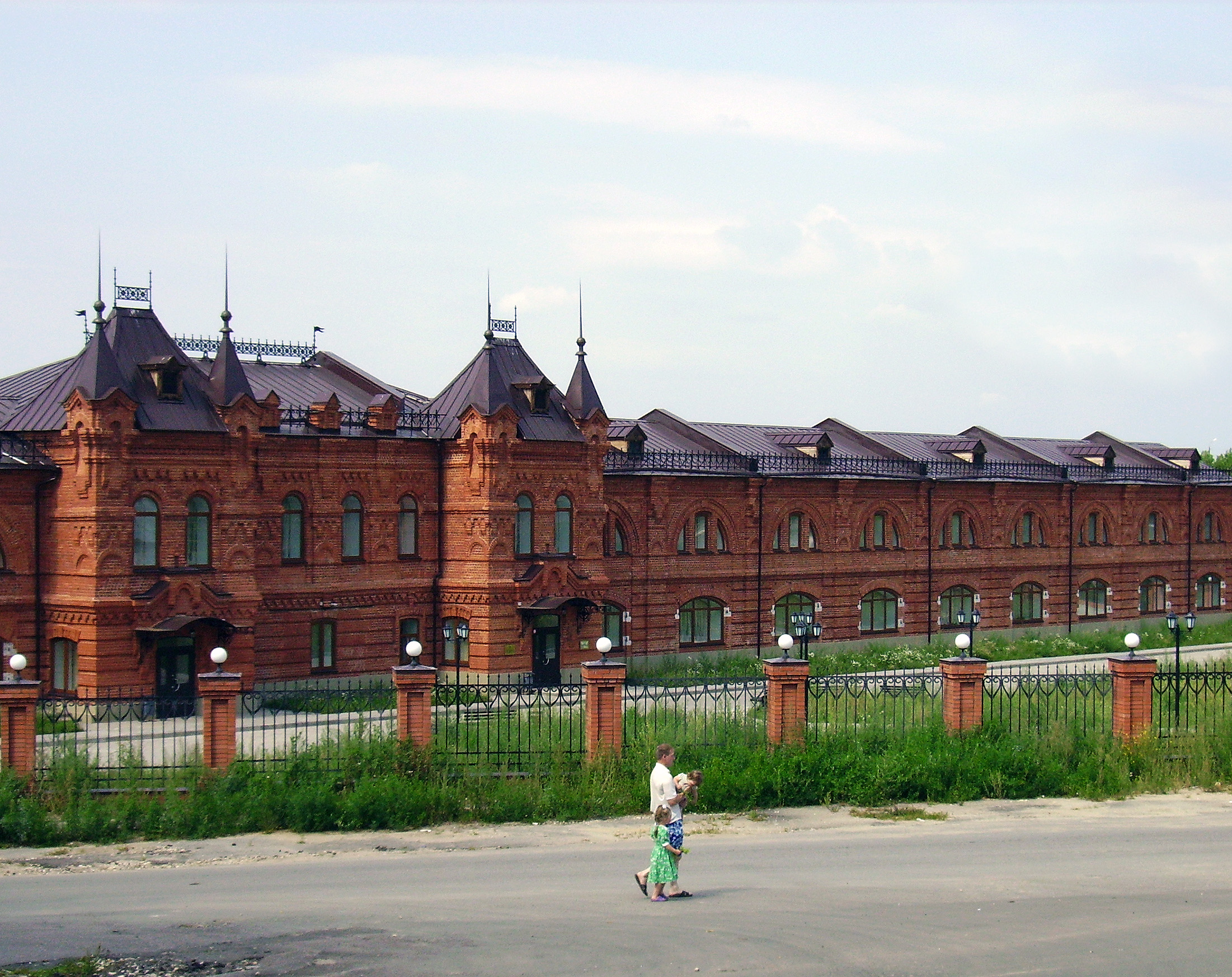 Kovrov. Pershutov & Pravda Streets crossing